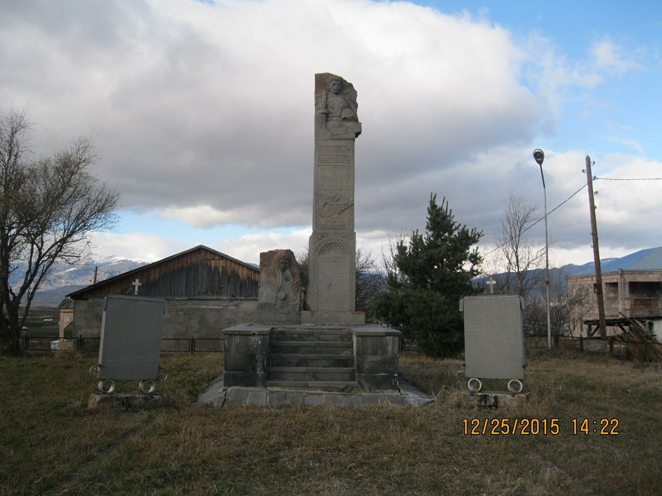 Հուշարձան